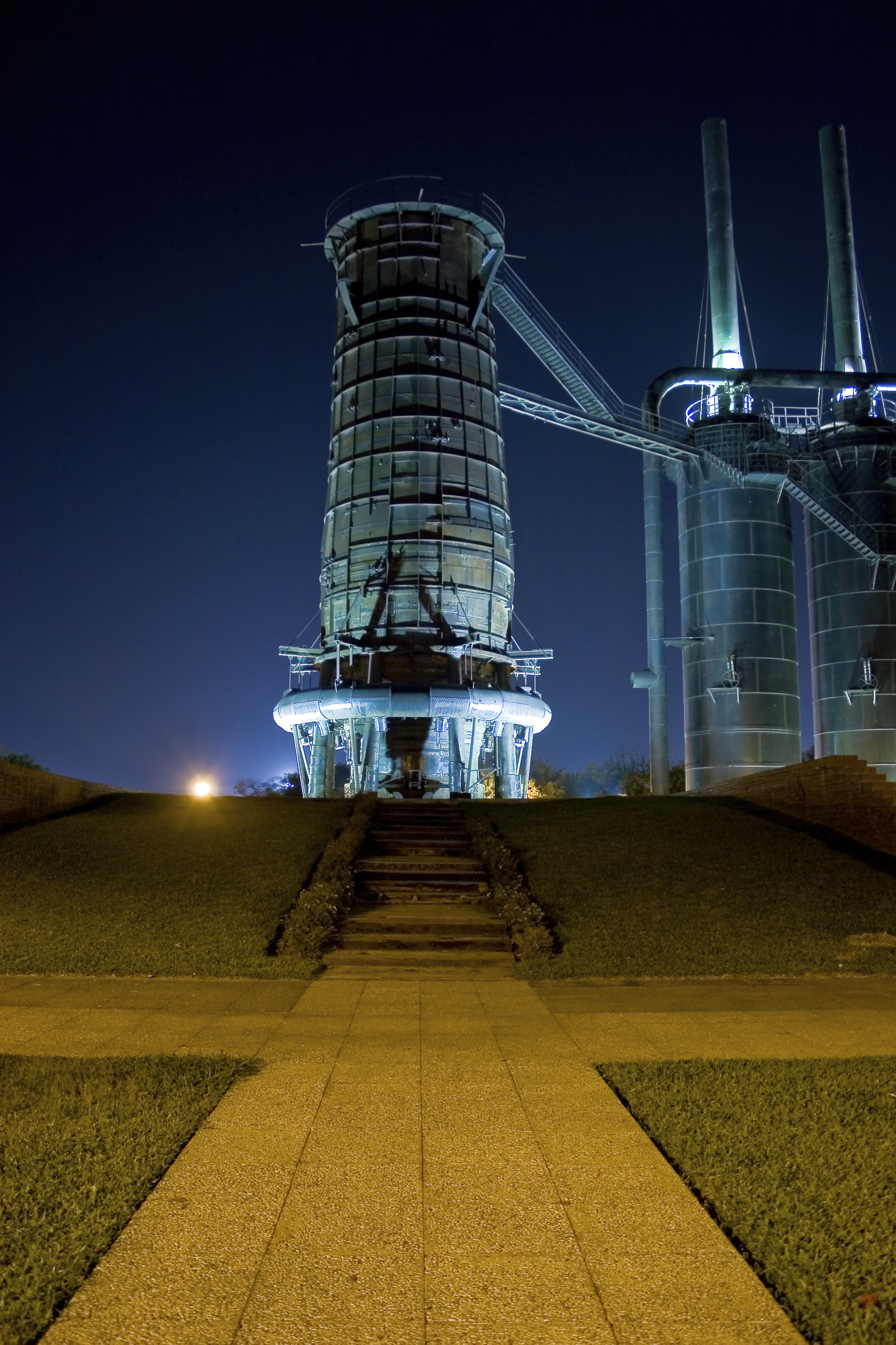 An naked blast furnace steel shell of the former Fundidora de Acero de Monterrey steel mill, in Monterrey, México. Present day location of Parque Fundidora, a public park preserving the sculptural mill ruins, and with the Museo del Acero (steel museum).